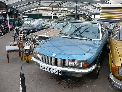 NSU RO80 at the Stondon Transport Museum